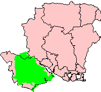 new forest NP boundries